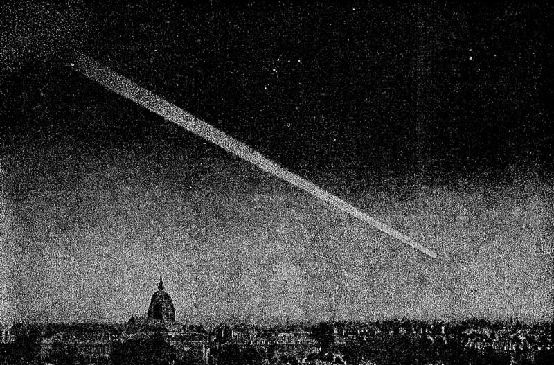 The Great Comet of 1843 (C/1843 D1)